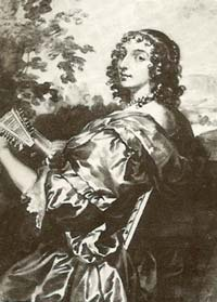 Utricia Ogle, Lady Swann (1616–1674), Drawing (bister) by Jan de Bisschop after a lost painting by Caspar Netscher. Turin, Royal Library.